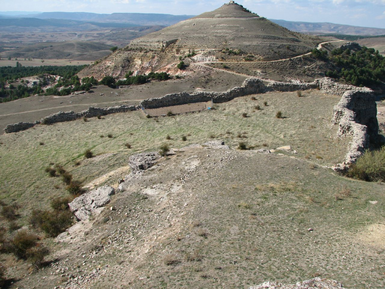 Padrastro hill in Atienza, Guadalajara, Spain.